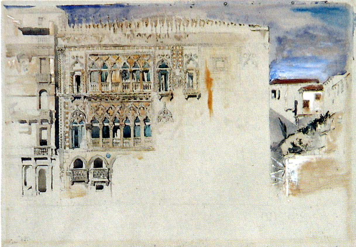 The Casa d'Oro, Venice. Pencil and watercolour, with bodycolour, 33 x 47.6 cm